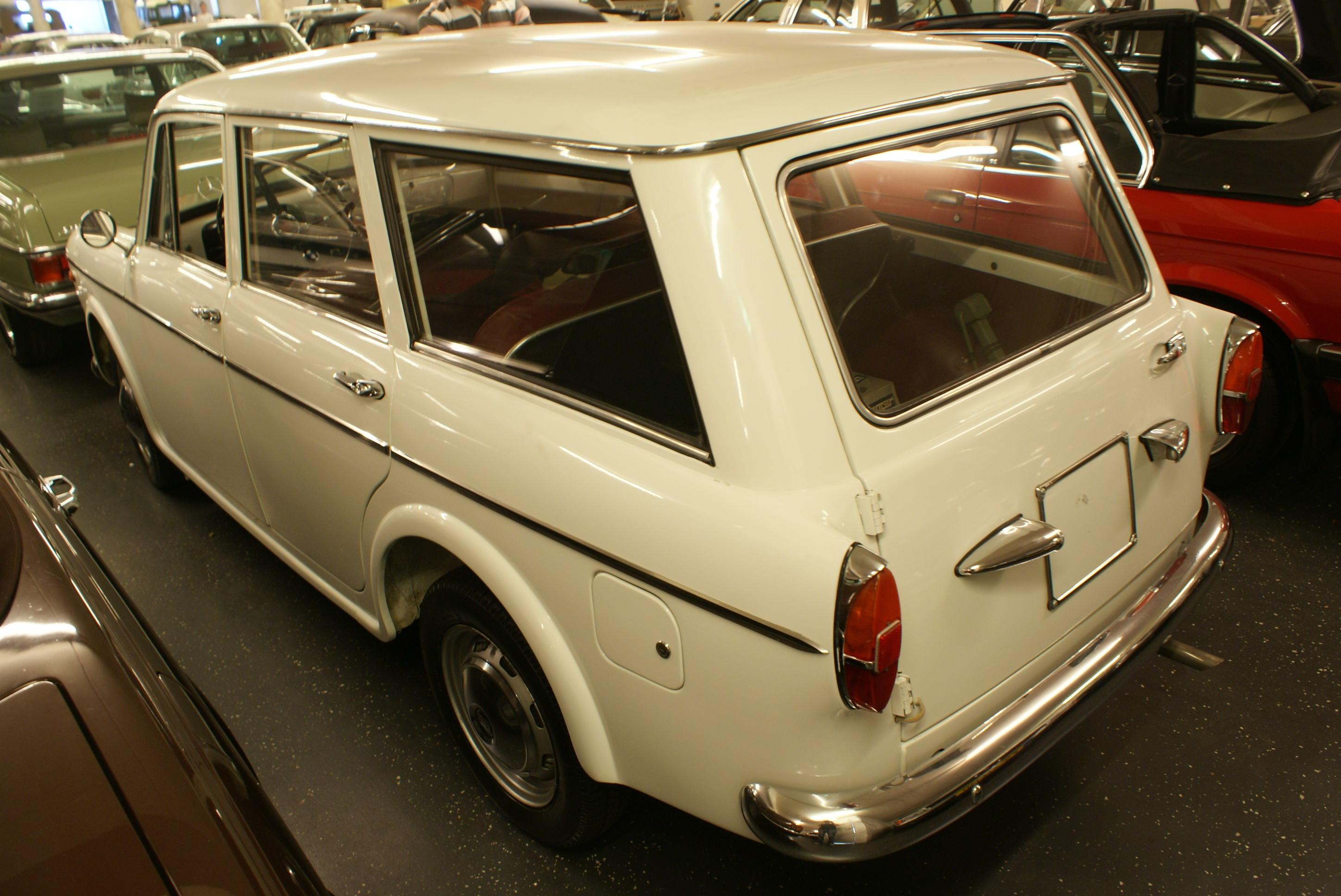 The Gallery